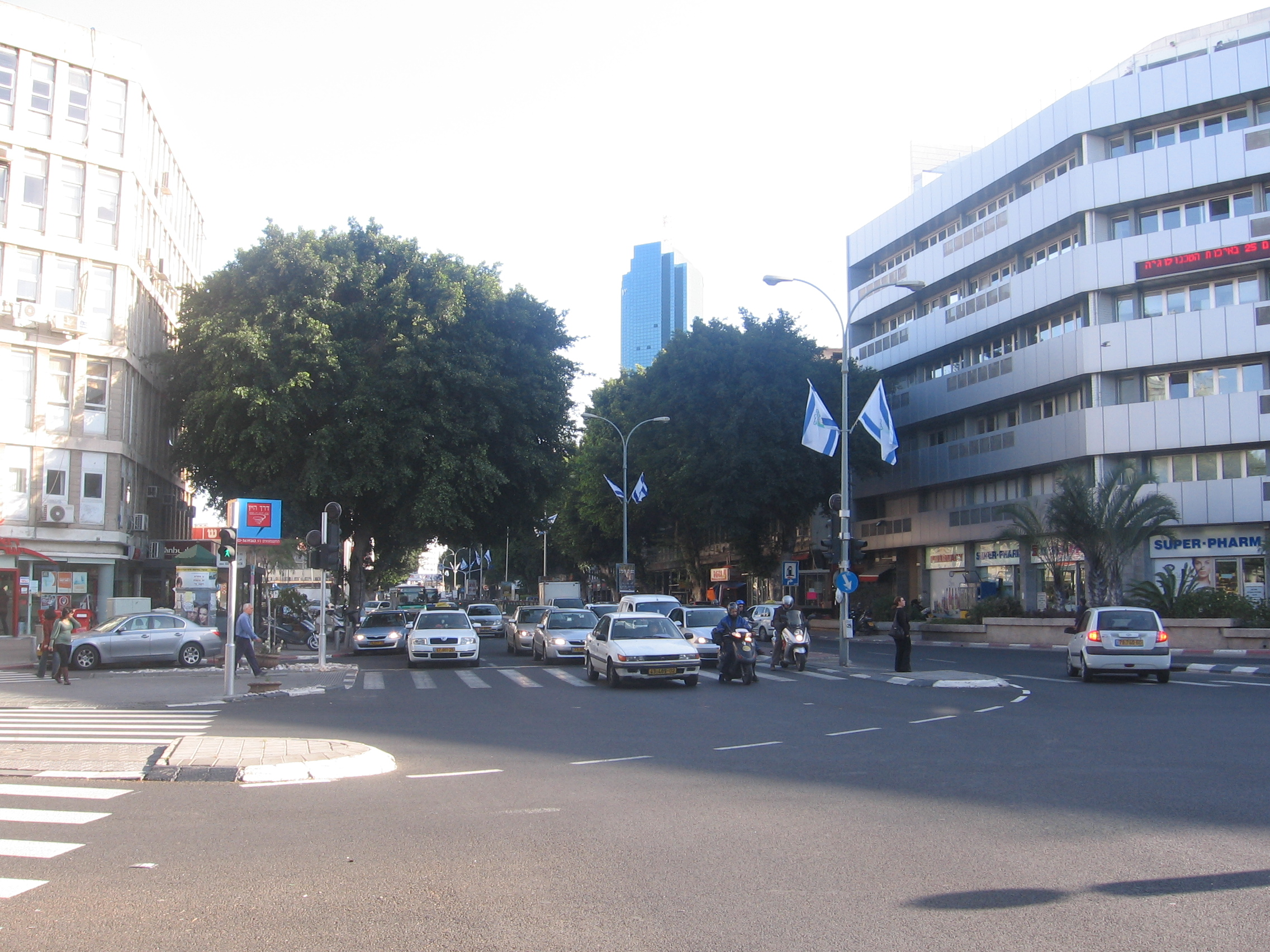 Hashmonaim st. in Tel Aviv.